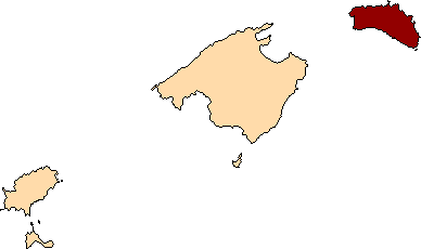 Location of Menorca